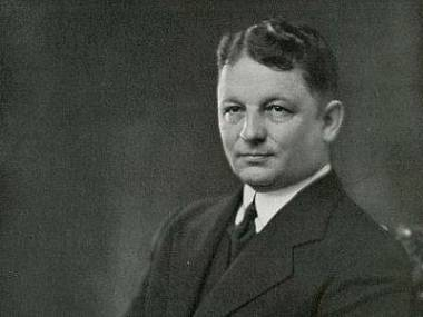 František Machník (1886-1967). Czech politician.